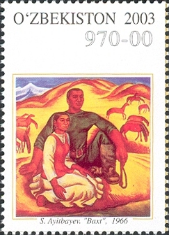 Stamps of Uzbekistan, 2003